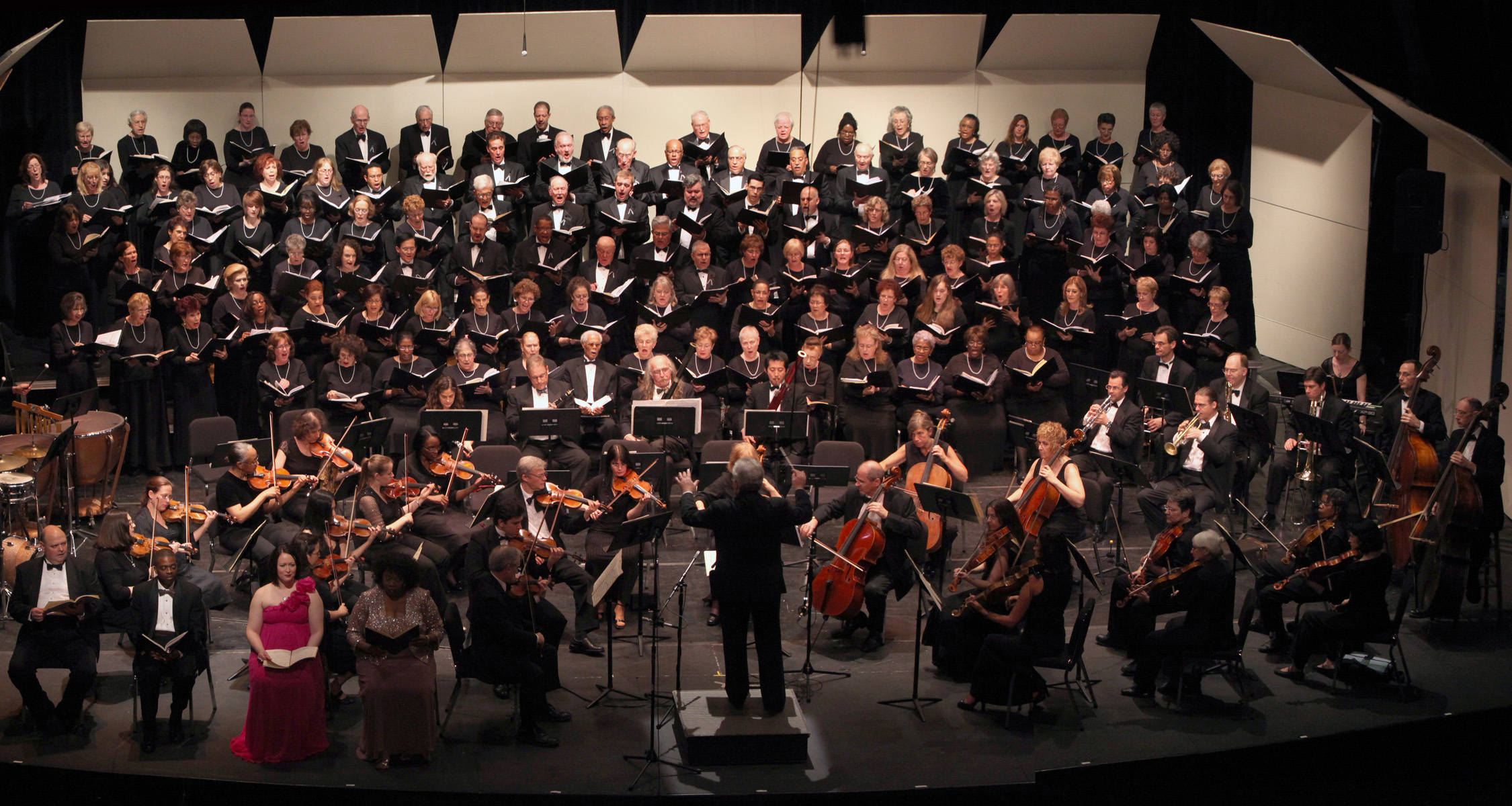 Oratorio Society of Queens in Concert - Spring 2010